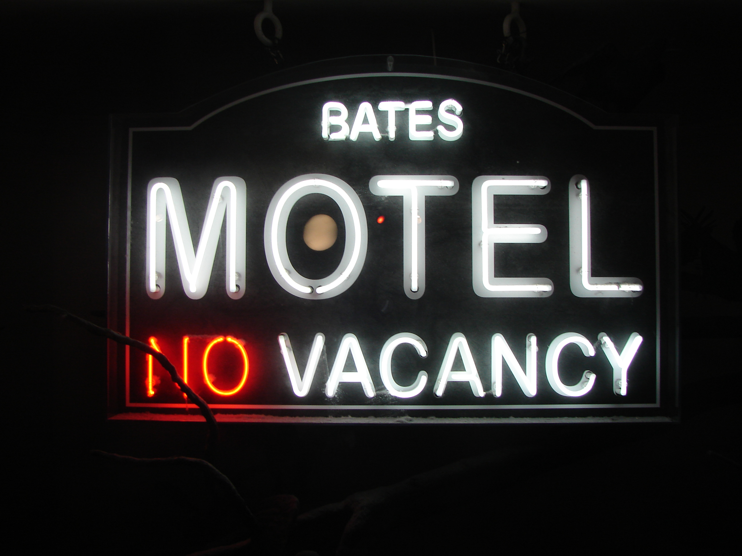 Photographs from Madame Tussauds, London Bates Motel